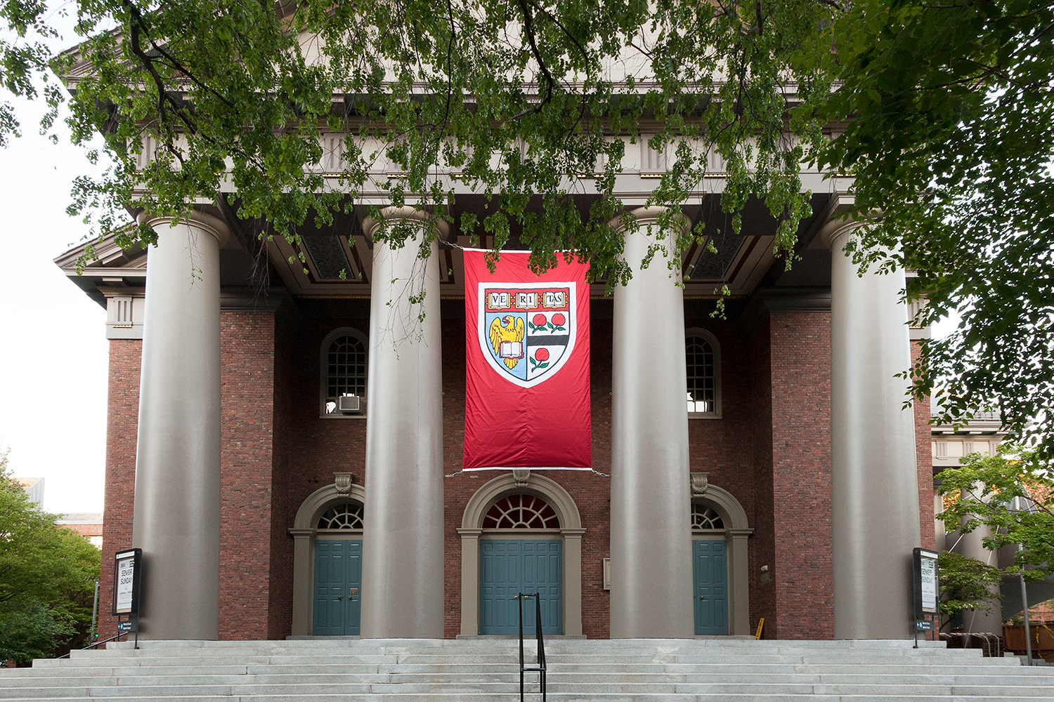 The west-facing doors of Memorial Church in Harvard Yard. The banner displays the Harvard "Veritas" motto.